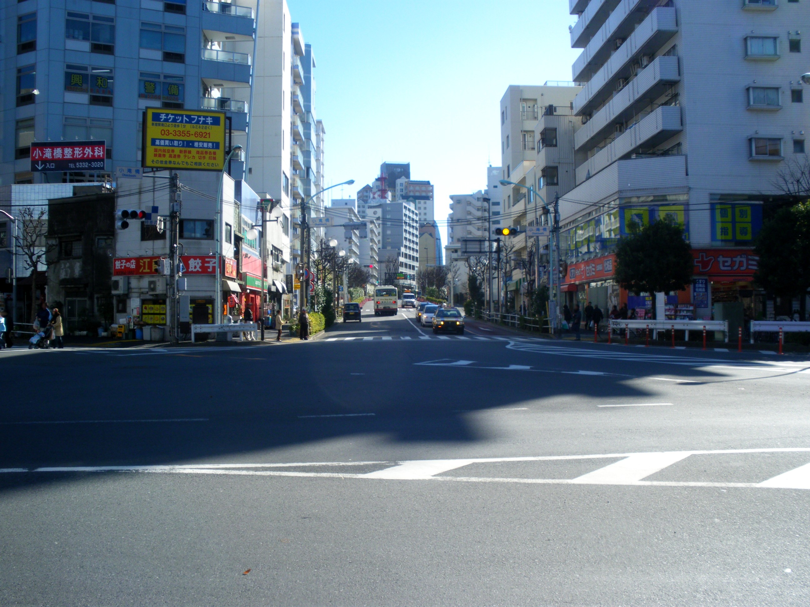 A photo of Otakibashi intersection, which is a three-way intersection(Waseda-Dori Street,Suwa-Dori Street and Otakibashi-Dori Street)located in Shinjuku-ku,Tokyo,Japan.